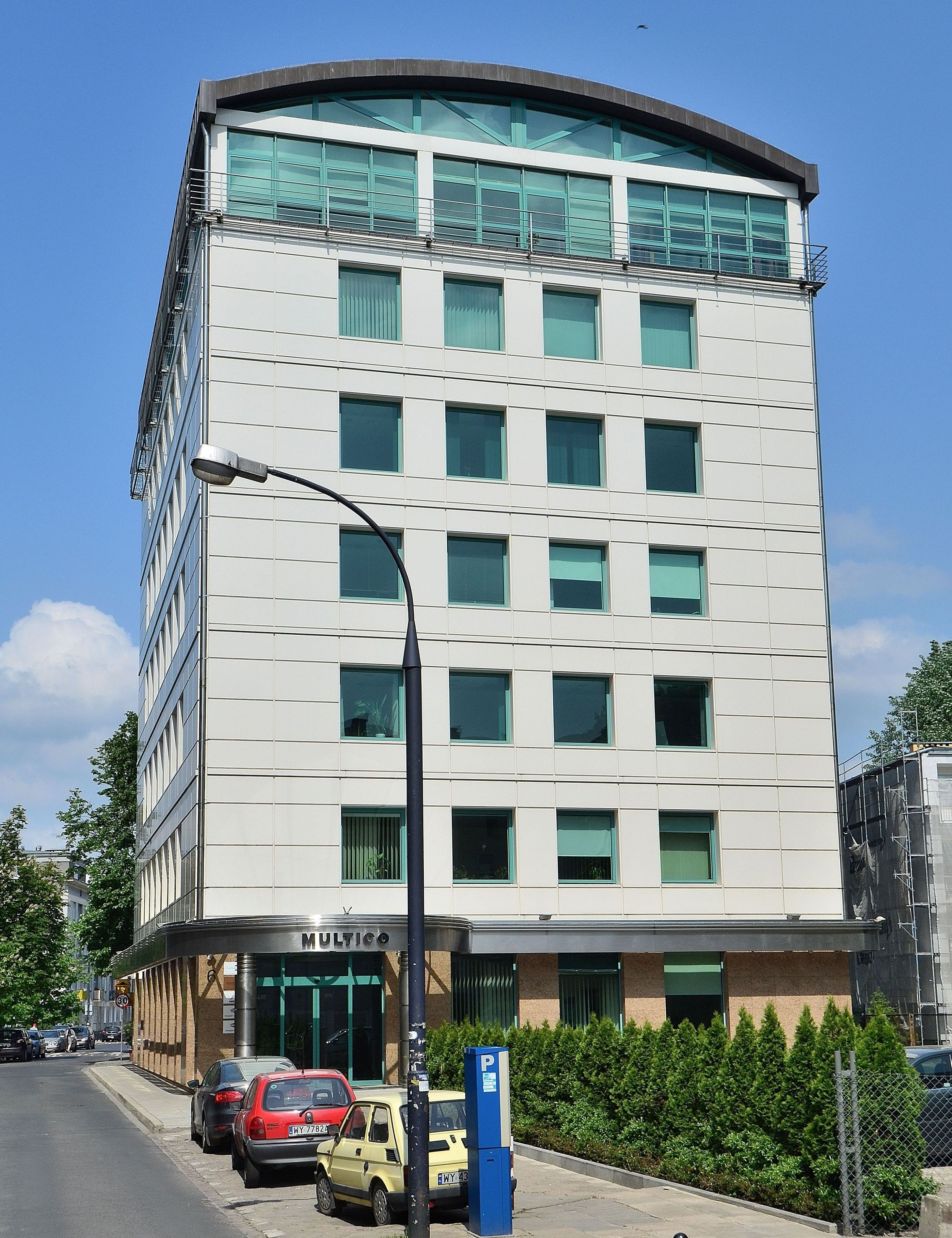 HQ of the Multico group of companies at 6 Ciasna Street in Warsaw